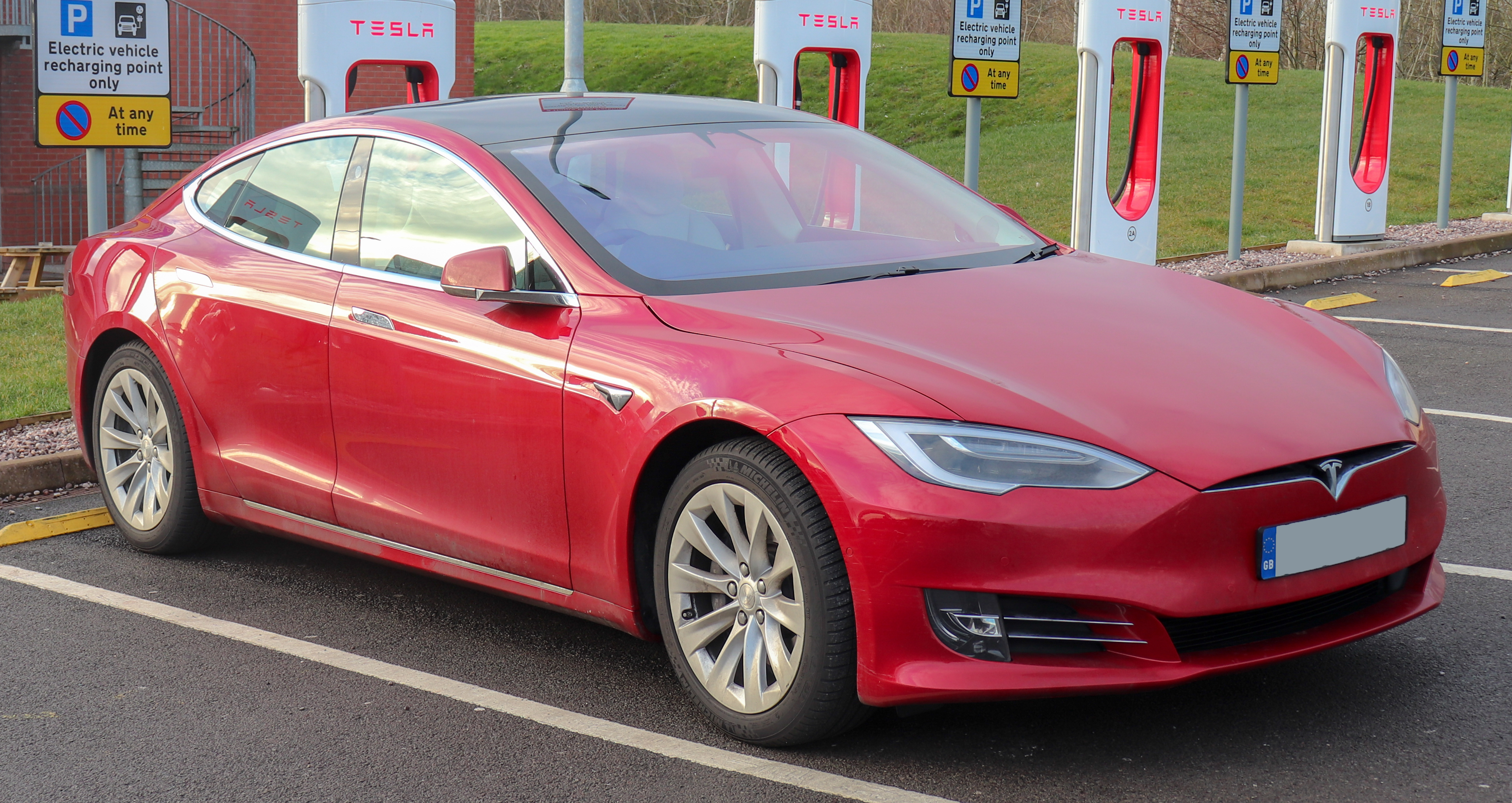 2018 Tesla Model S 75D Taken in A464, Priorslee Road, Shifnal